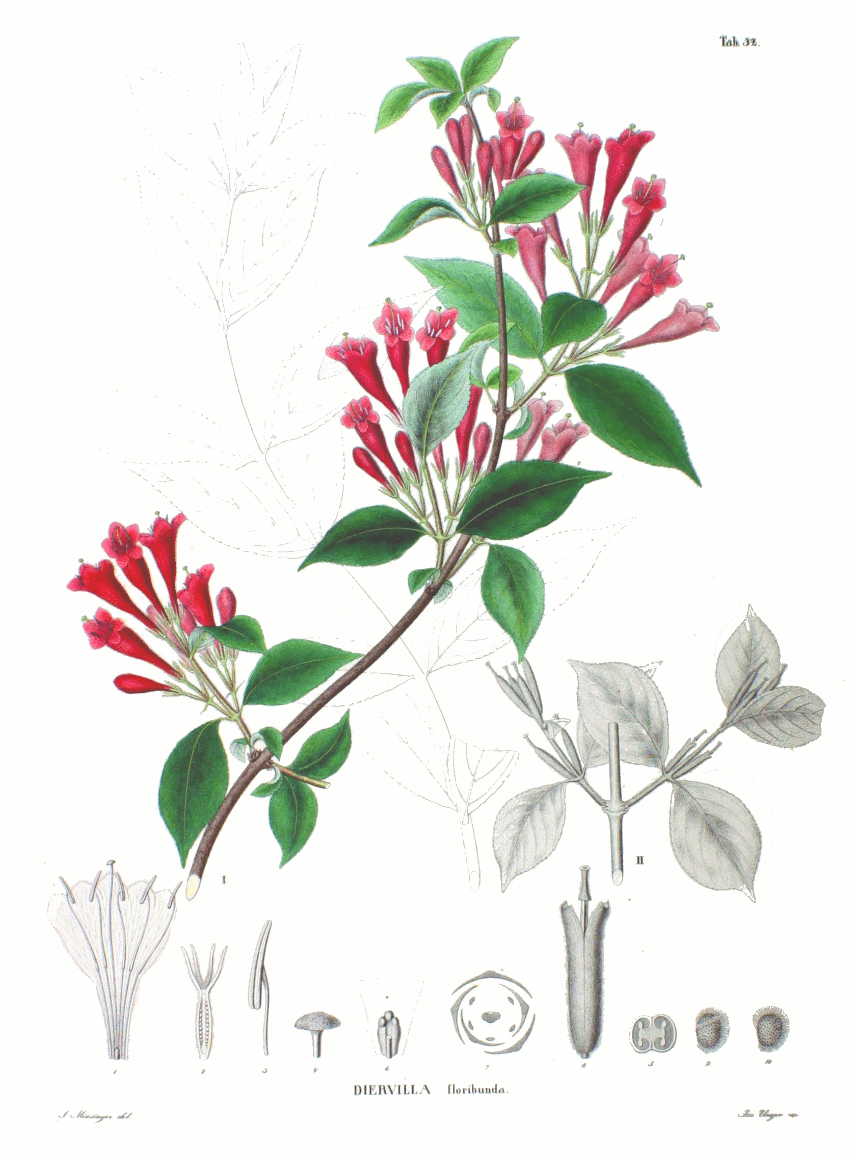 Plate from book